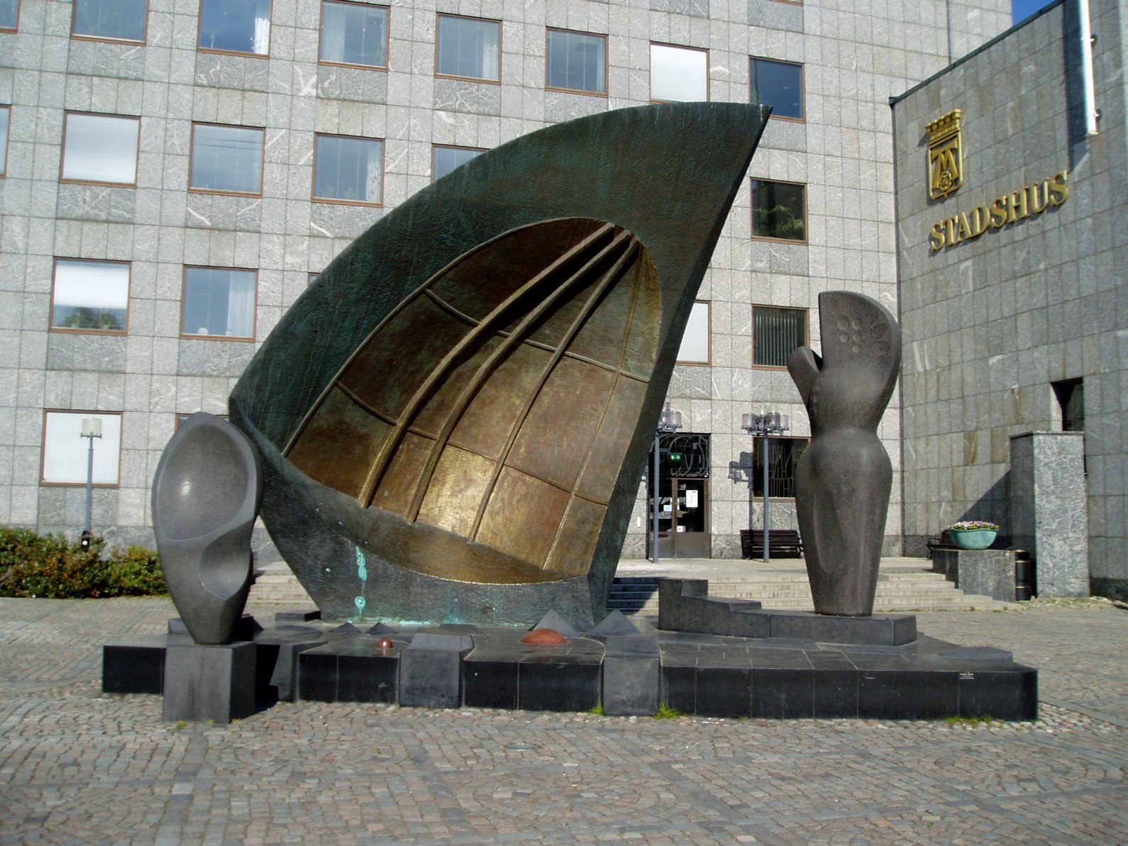 Sculpture in Västerås by Eric Grate